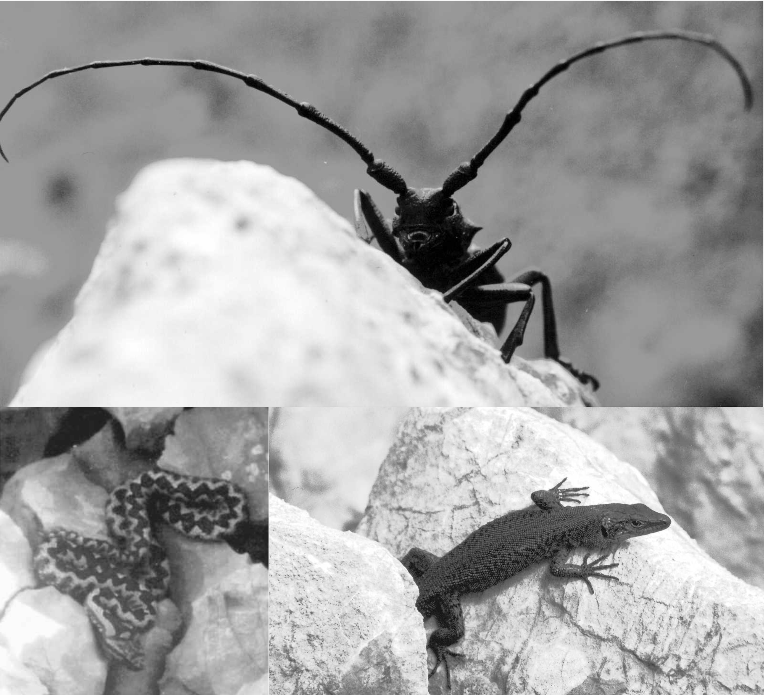 Examples of karst fauna typically found on Orjen.